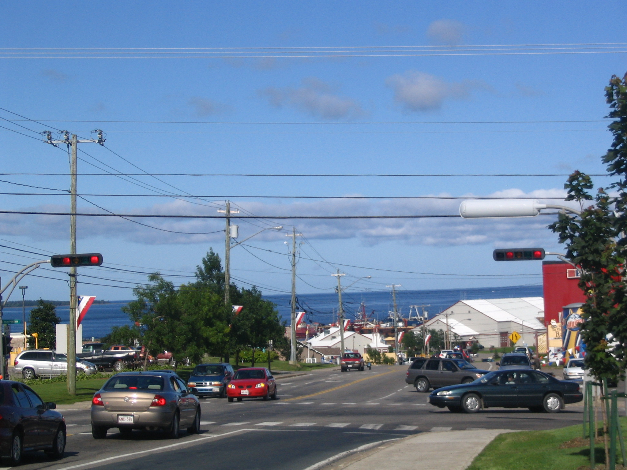 A view of the Saint-Pierre boulevard and the port of Caraquet, New Brunswick.